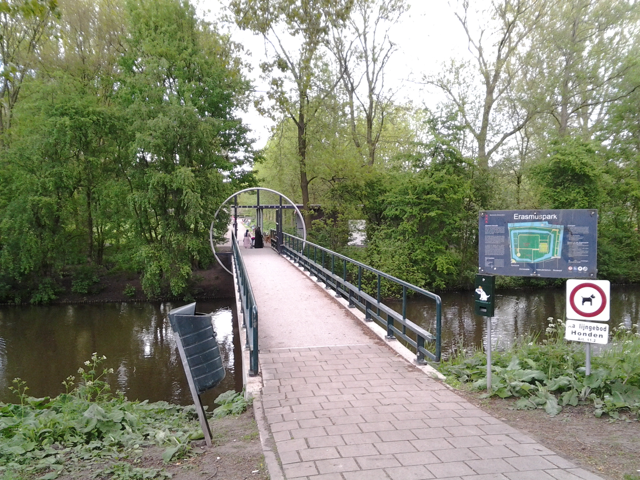 Eramuspark, park in Amsterdam-West, main entrance, from Mercatorstraat, pedestrian bridge